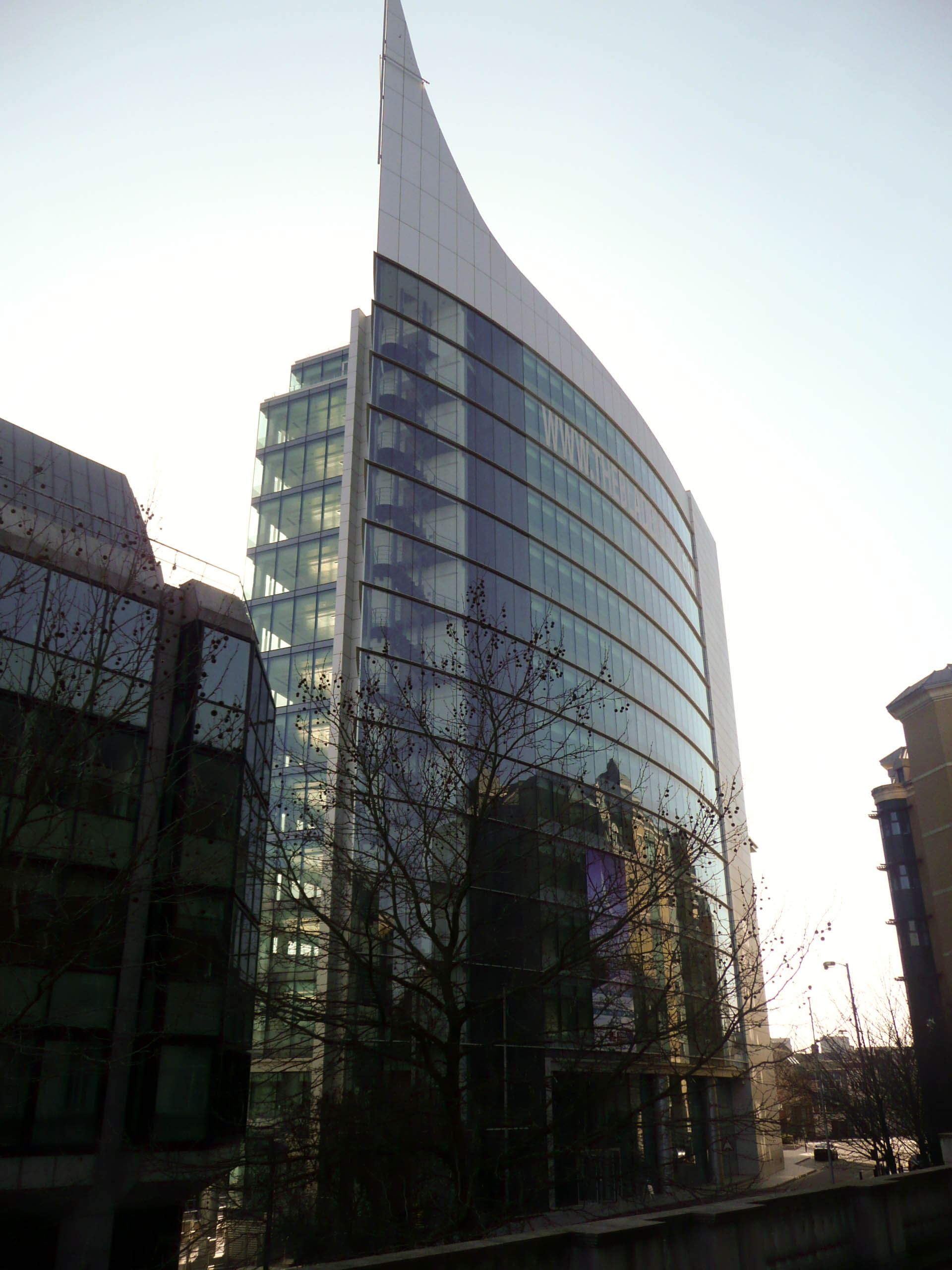 The Blade, Abbey Square, Reading. Completed 2009.